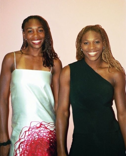 Pam Shriver event Baltimore on left ....Wash D.C. Charity on right Copyright John Mathew Smith 2001